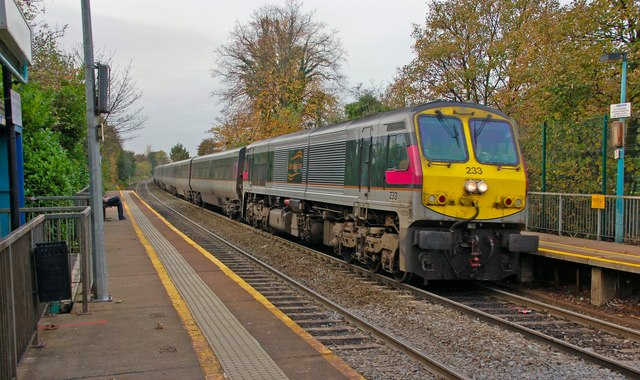 Balmoral railway station Original description: Balmoral station, Belfast (3) See J3170 : Balmoral station, Belfast (2). The 07.35 Dublin – Belfast passing Balmoral station, at reduced speed following a signal check.